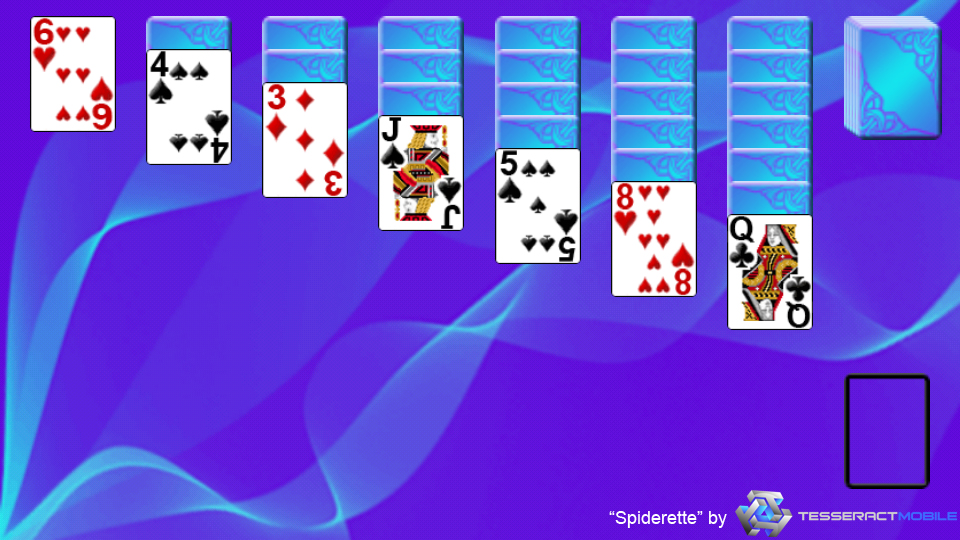 This is a screenshot of the solitaire game Spiderette layout.